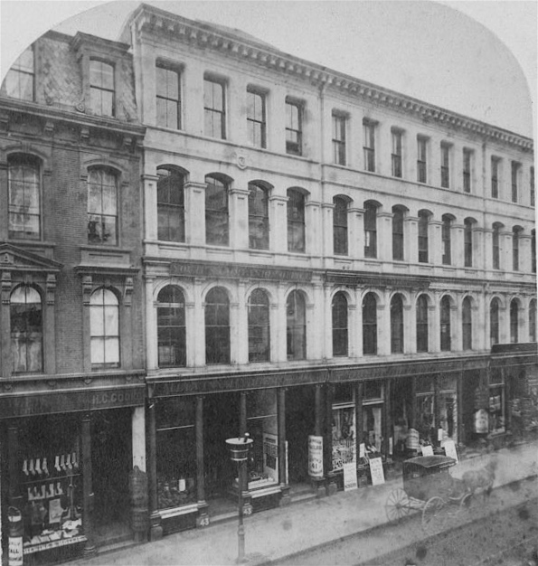 Accession No.: 06_11_000093: Youth's Companion Building (Temple Place?), Boston; ca.1870s?, America Illustrated. Boston & Suburbs. Local Subject: Commercial Buildings, Boston (Mass.)